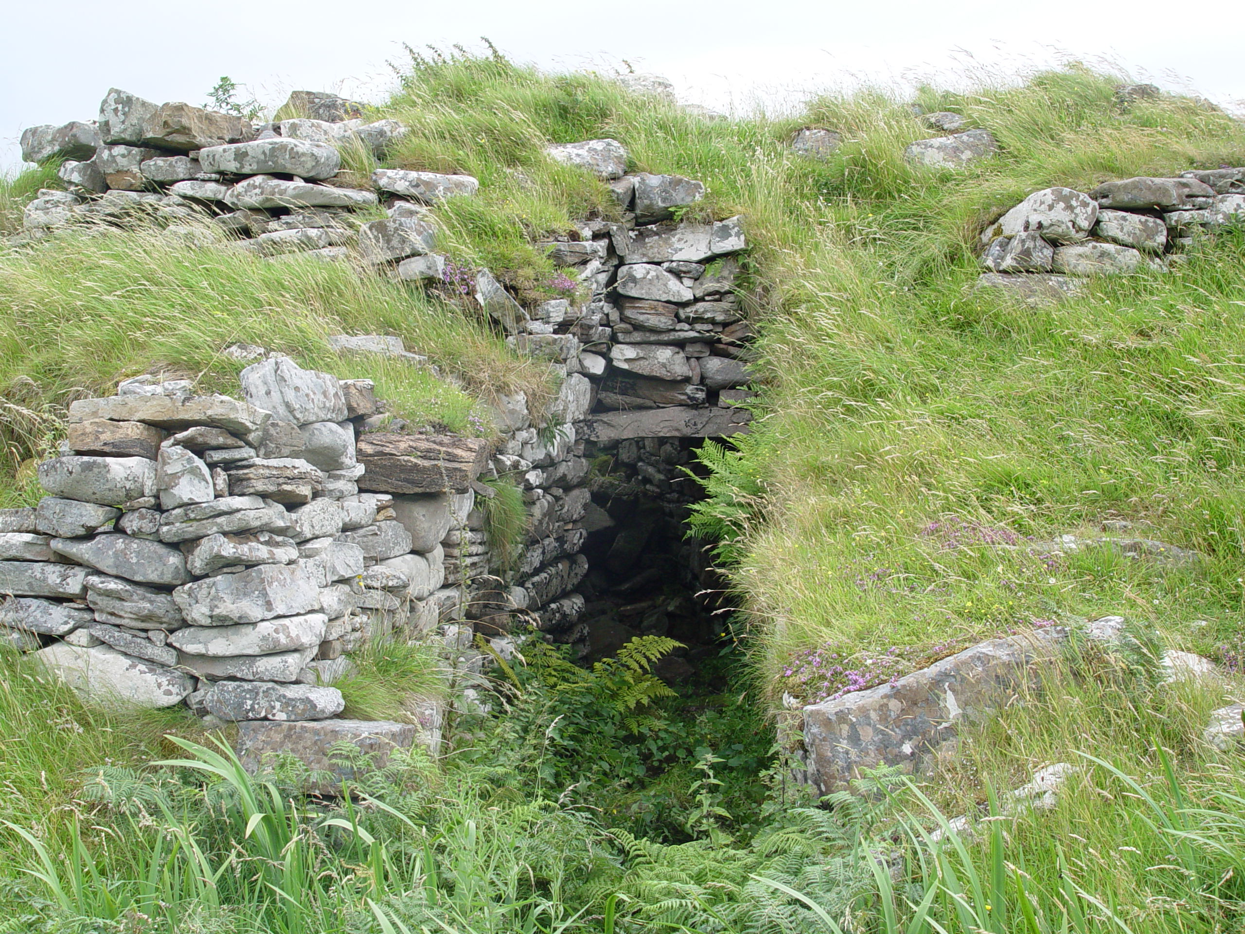 The landward facing door of Dun Ringill. It leads into the center of the structure. The door height is approximately 1.8 meters.